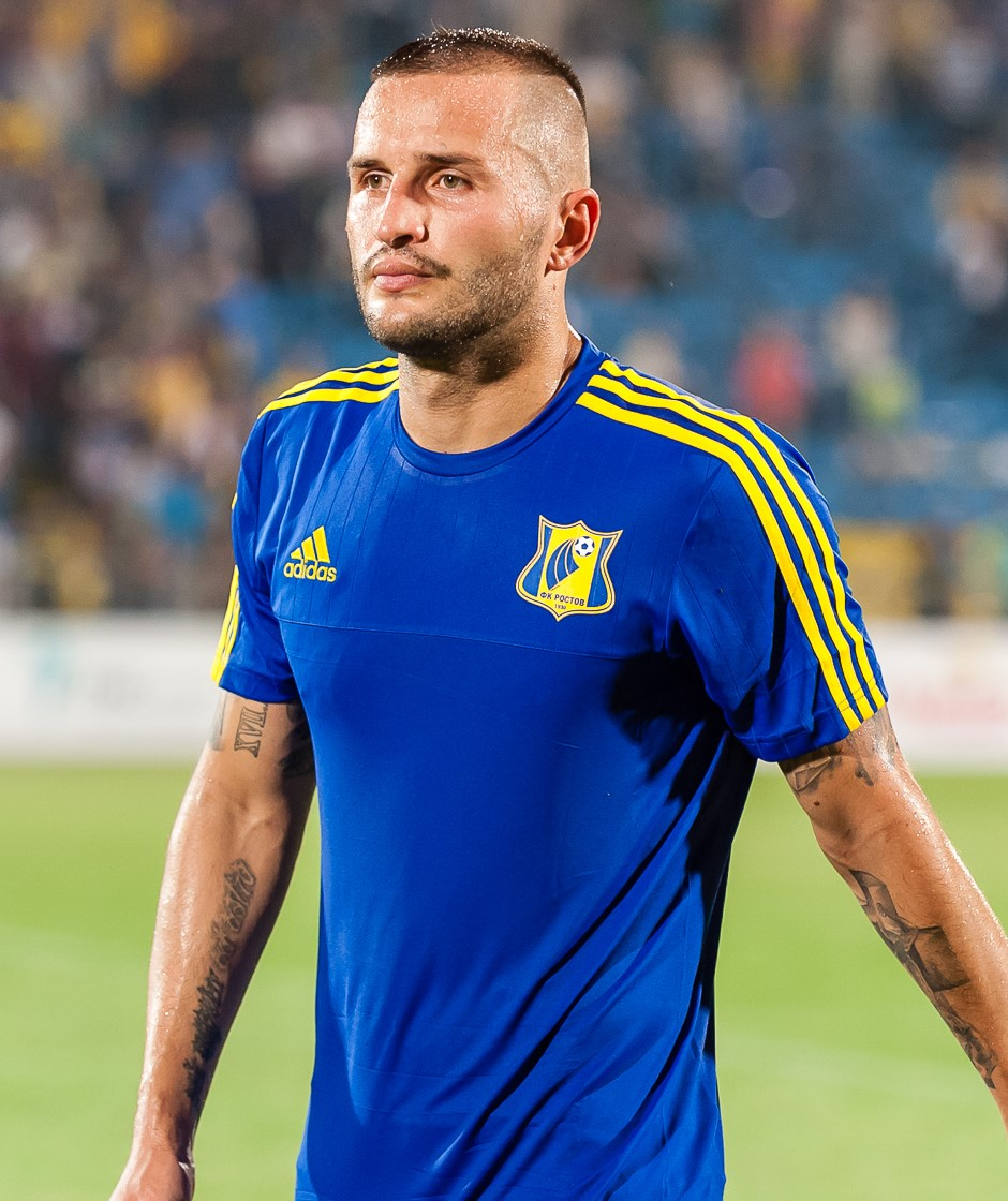 Feodor Kudryashov